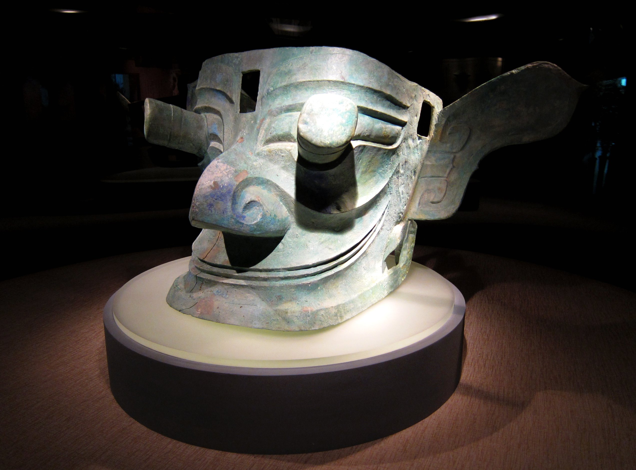 Bronze Mask with Protruding Eyes.